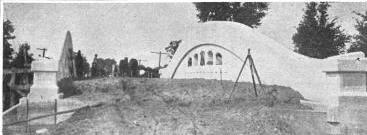 Lincoln Road Pine River Bridge, near Seville, Michigan when built NRHP# 99001516